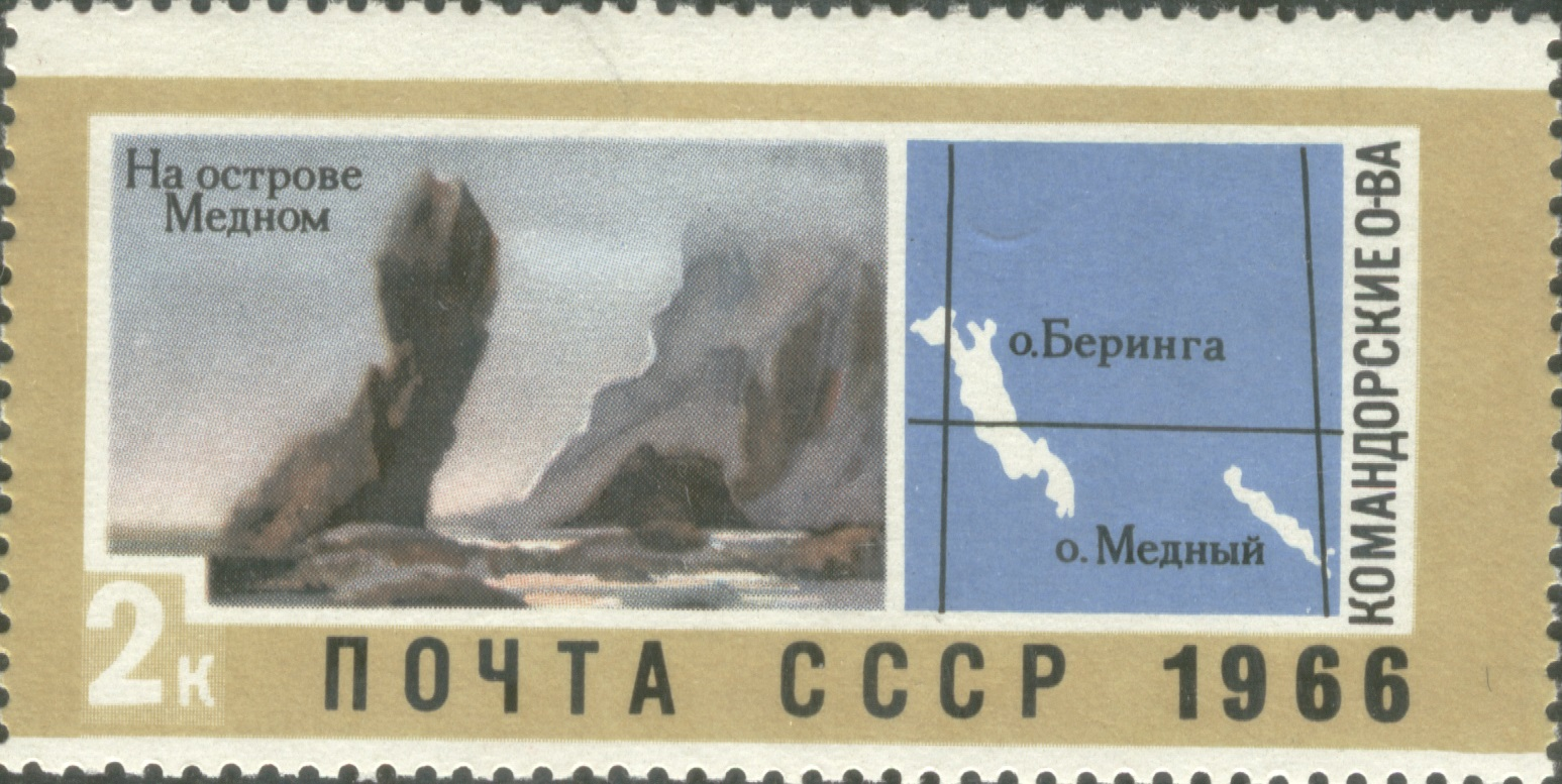 A USSR stamp